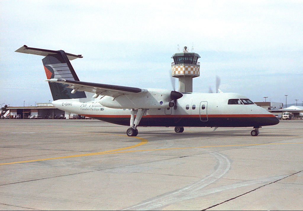 Air Atlantic De Havilland Canada DHC-8-102 Dash 8 C-GAAC at Faro Airport